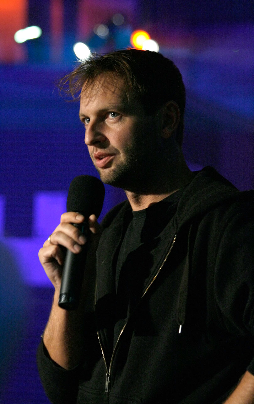 Martin Gschlacht at an open discussion together with Shirin Neshat and Shoja Azari about their film Zanan bedun-e mardan (Women without men) during the Vienna International Film Festival 2009.